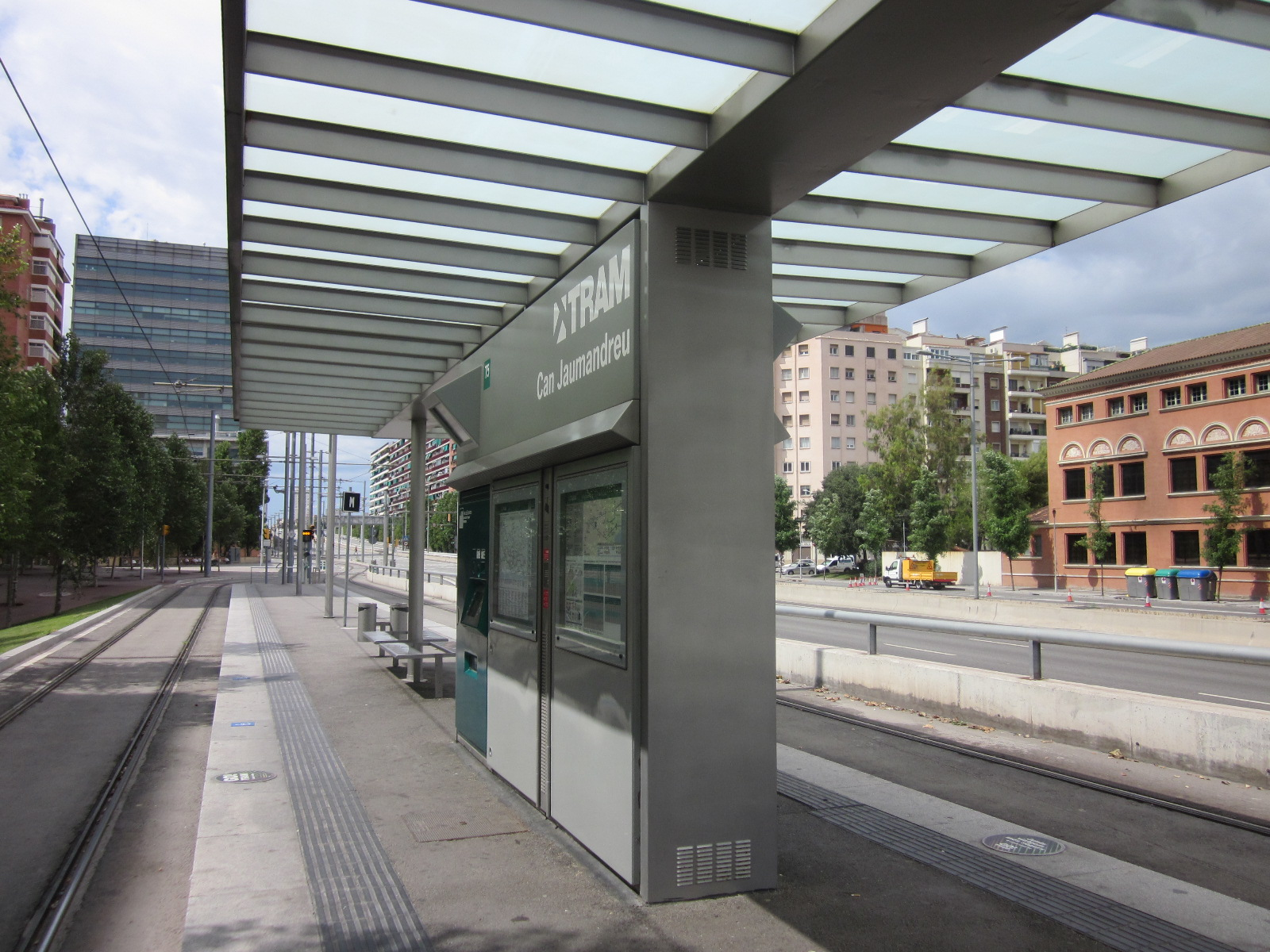 Can Jaumandreu Trambesòs stop (Barcelona)